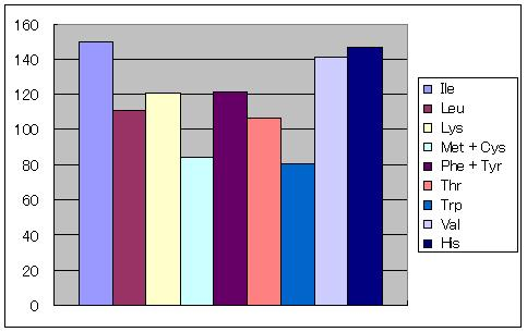 Amino Acid Score of Lentil